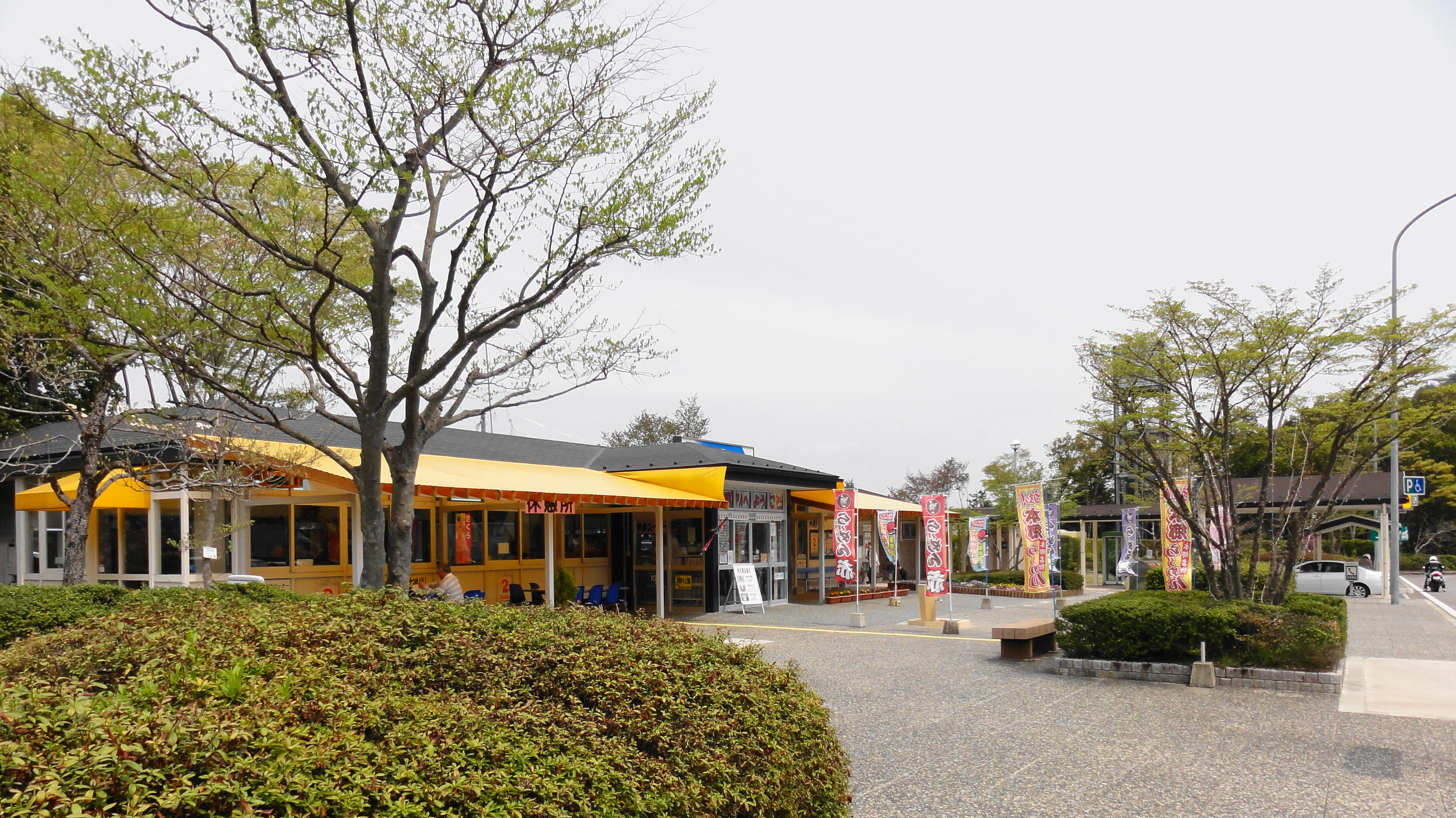 Hongo Parking Area,Hiroshima prefecture,Japan